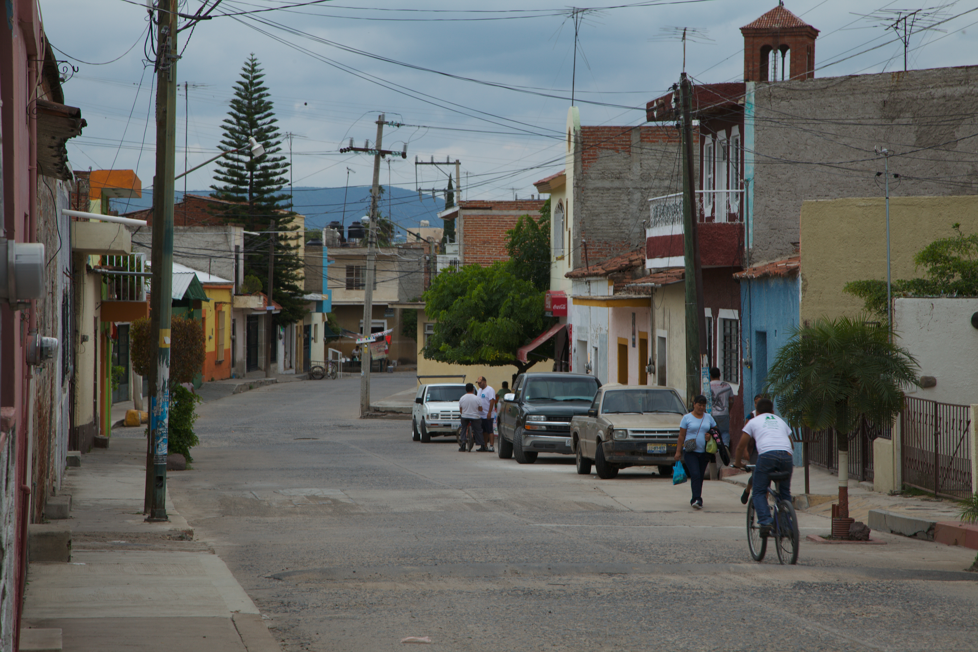 A street of Ameca, Jalisco